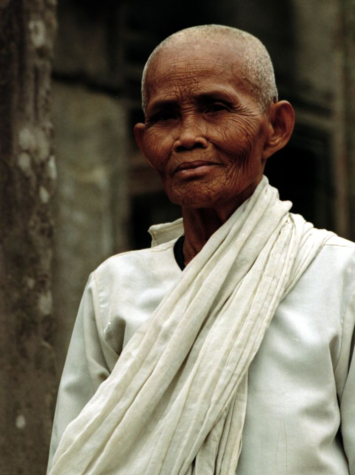 Female Buddhist lay rununciant at Angkor Wat, Siem Reap, Cambodia (January 2005). Photo by Peter Rimar. Featured Photo of the Week: Portal: Cambodia - March 5, 2007